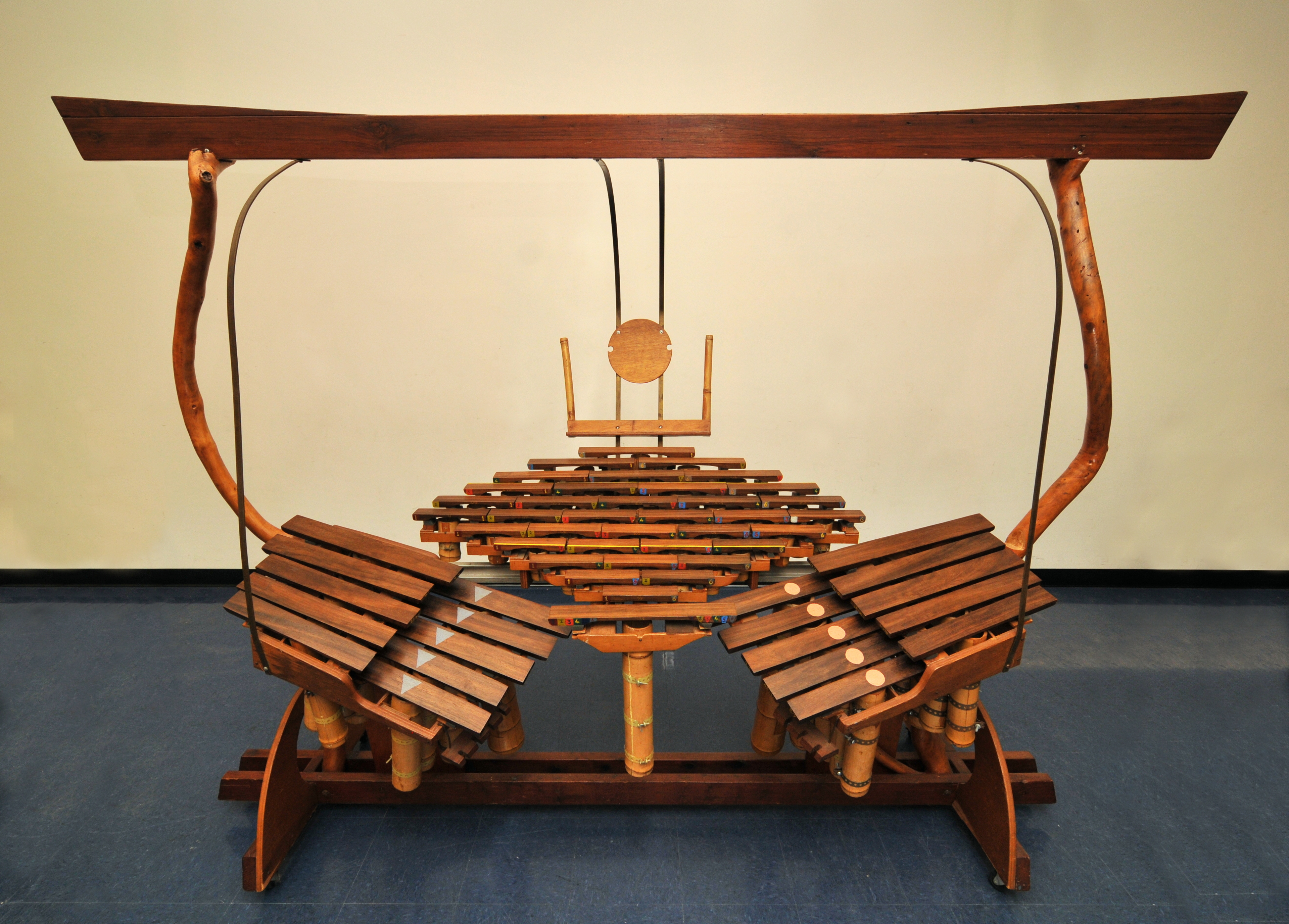 Harry Partch's Quadrangularis Reversum, a large marimba with several ranks of blocks tuned in his system of just intonation. Photographed at the Harry Partch Institute at Montclair State University.